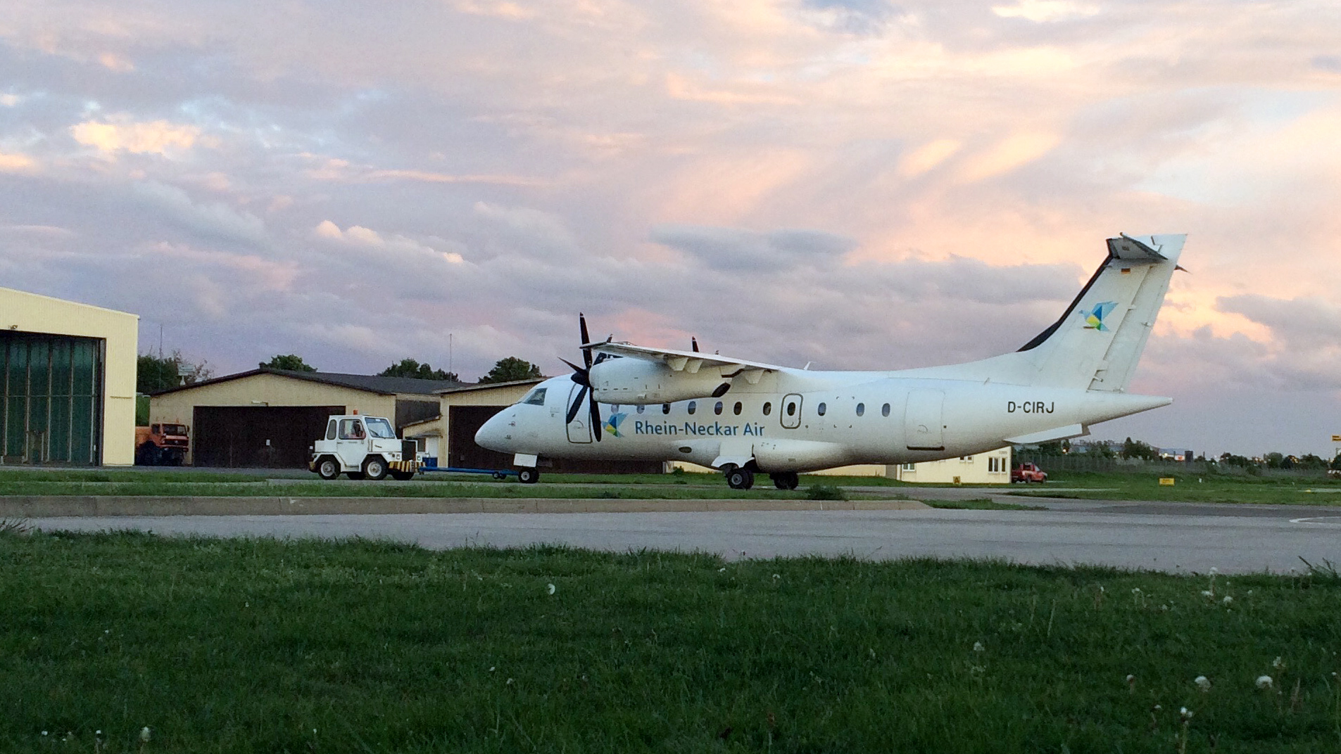 Dornier Do-328 (D-CIRJ) from Rhein-Neckar Air